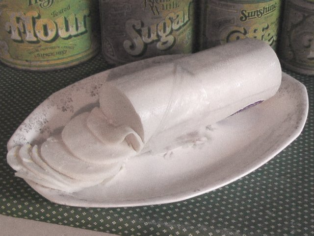 Made for the article "farmer cheese"